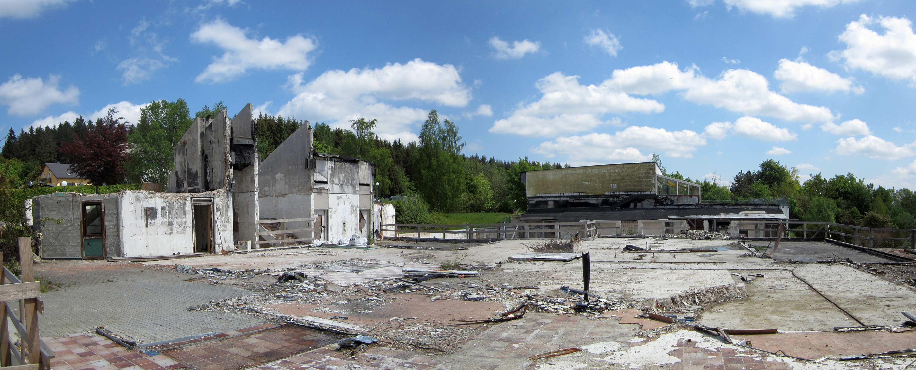 Remains of the Kristalltherme spa in Fichtelberg (Upper Franconia), burnt down in 2012